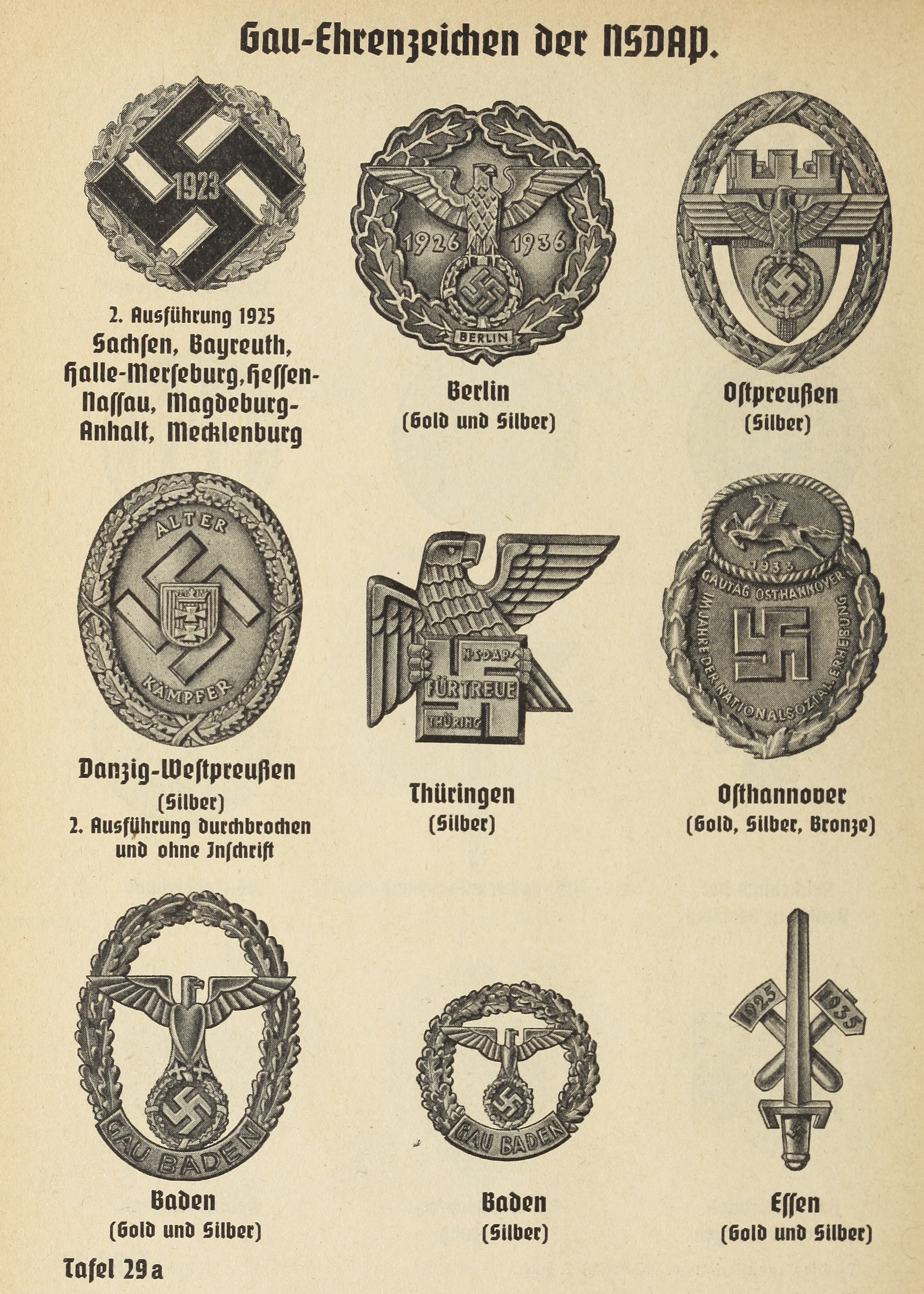 ORGANISATIONSBUCH DER NSDAP 1943: Tafel 29a Gau-Ehrenzeichen der NSDAP. 2. Ausführung 1925 Sachsen, Bayreuth, Halle-Merseburg, Hessen-Nassau, Magdeburg-Anhalt, Mecklenburg; Berlin (Gold und Silber); Ostpreussen (Silber) Danzig-Westpreussen (Silber) 2. Ausführung durchbrochen und ohne Inschrift; Thüringen (Silber); Osthannover (Gold, Silber, Bronze) Baden (Gold und silber); Baden (Silber); Essen (Gold und Silber) Plate showing emblems, badges, political decorations, etc of the Nationalsozialistische Deutsche Arbeiterpartei (NSDAP, National Socialist German Workers' Party) in Nazi Germany. Cropped page copied from Organisationsbuch der NSDAP by Reichsorganisationsleiter Robert Ley (1890 – 1945) published 1943 ("Herausgeber: Robert Ley"; "7 Auflage: 301-400 Tausend"). Publisher : Zentralverlag der NSDAP, Franz Eher Nachf., München. 856 pages. 596 (ie 750) p: ill, maps, ports, plates; 22 cm; German language. Letters in Fraktur style typefaces. Legal disclaimer This image shows (or resembles) a symbol that was used by the National Socialist (NSDAP/Nazi) government of Germany or an organization closely associated to it, or another party which has been banned by the Federal Constitutional Court of Germany. The use of insignia of organizations that have been banned in Germany (like the Nazi swastika or the arrow cross) are also illegal in Austria, Hungary, Poland, Czech Republic, France, Brazil, Israel, Ukraine, Russia and other countries, depending on context. In Germany, the applicable law is paragraph 86a of the criminal code (StGB), in Poland – Art. 256 of the criminal code (Dz.U. 1997 nr 88 poz. 553).